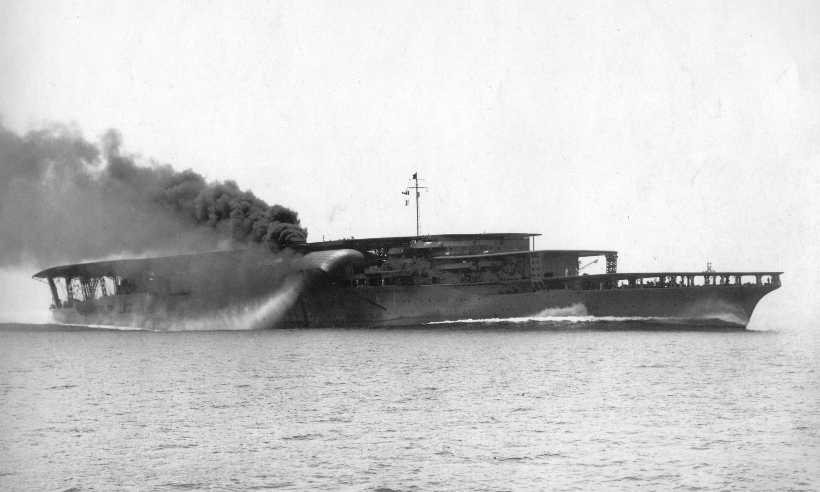 The Imperial Japanese Navy aircraft carrier Akagi undergoing trials off Iyonada, 17 June 1927. Early in her career, she was fitted with three flight decks; the two lower decks were later plated over in a mid-1930s refit.[1]